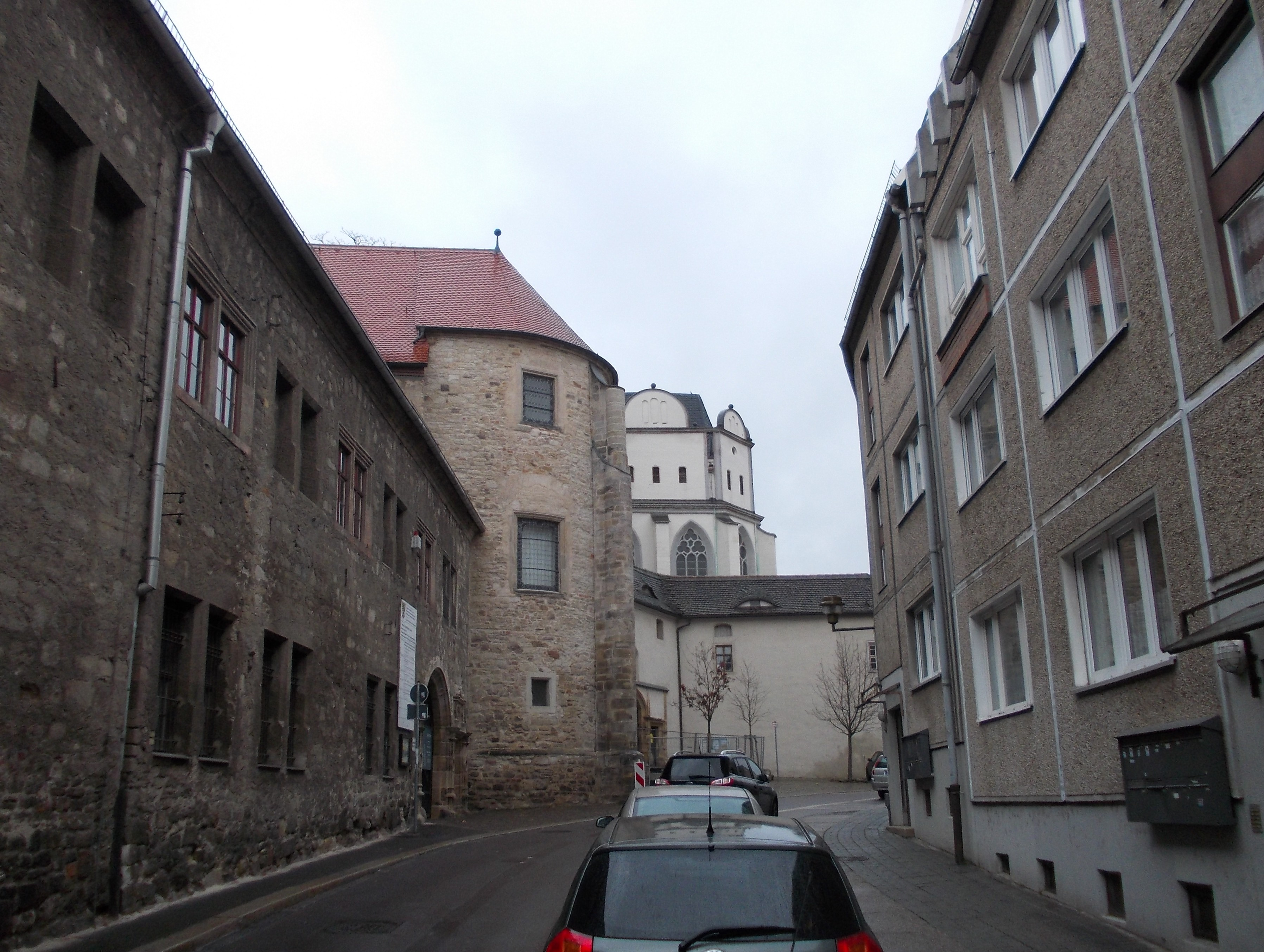 Domstrasse in Halle/Saale (Saxony-Anhalt), with the New Residence and the cathedral